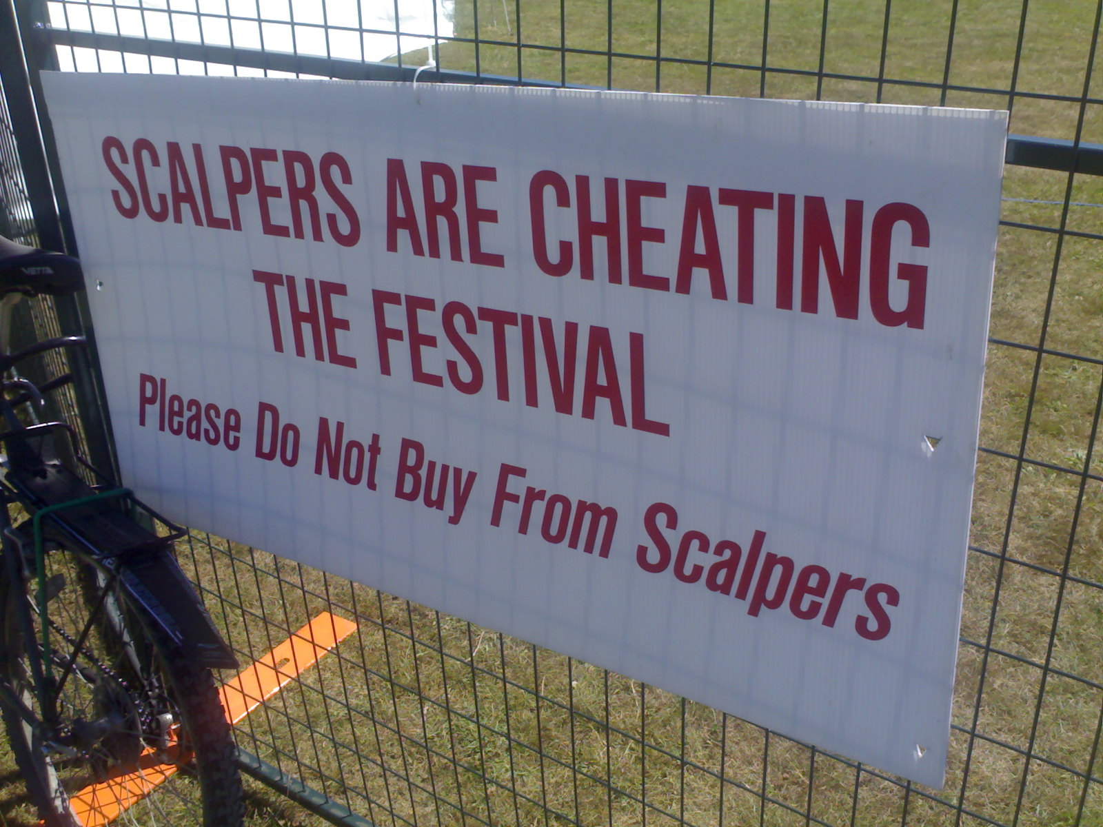 The Scalpers Are Cheating The (Vancouver Folk Music) Festival